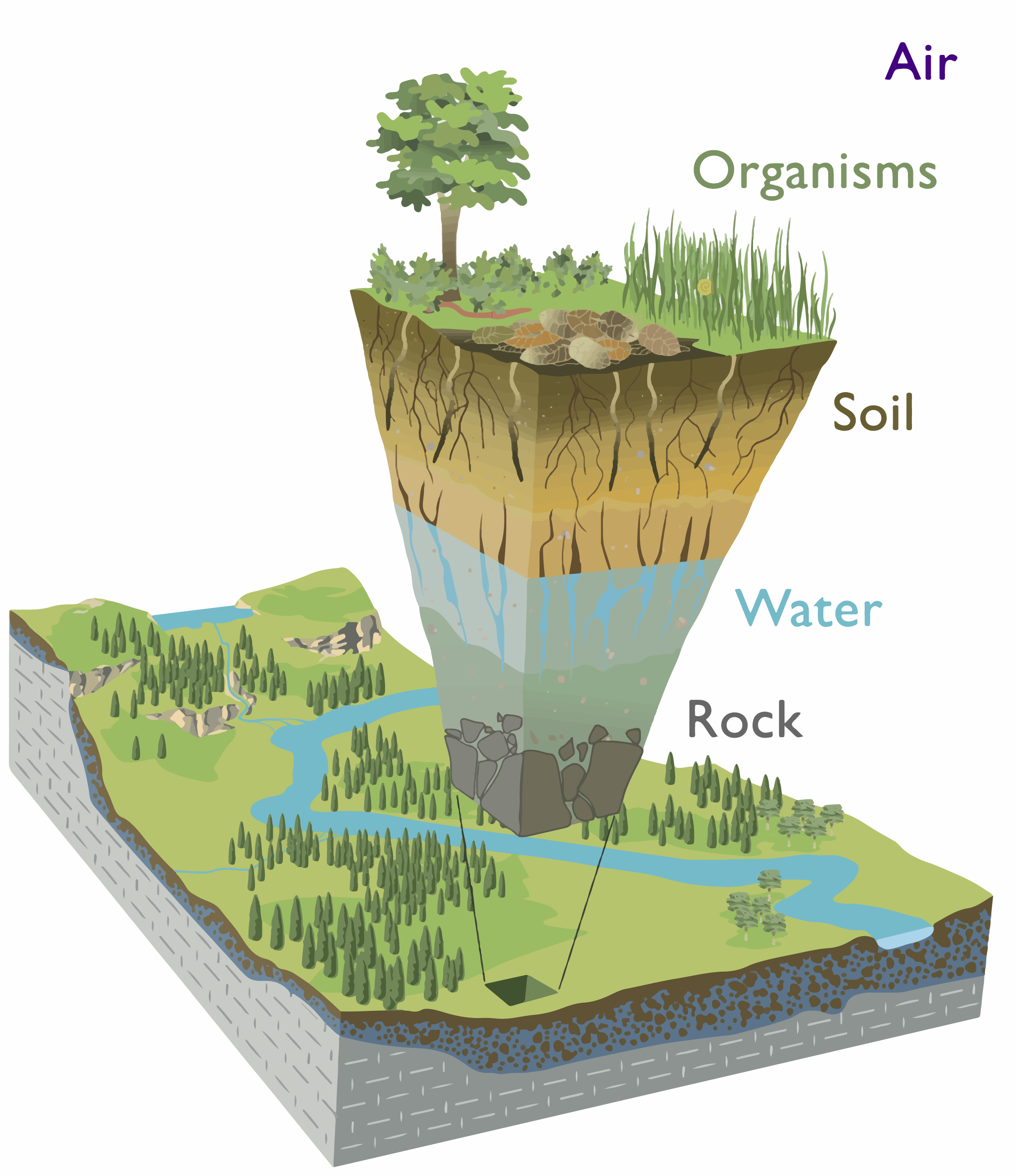 Modified from Chorover, J., R. Kretzschmar, F. Garcia-Pichel, and D. L. Sparks. 2007. Soil biogeochemical processes in the critical zone. Elements 3, 321-326. (artwork by R. Kindlimann)